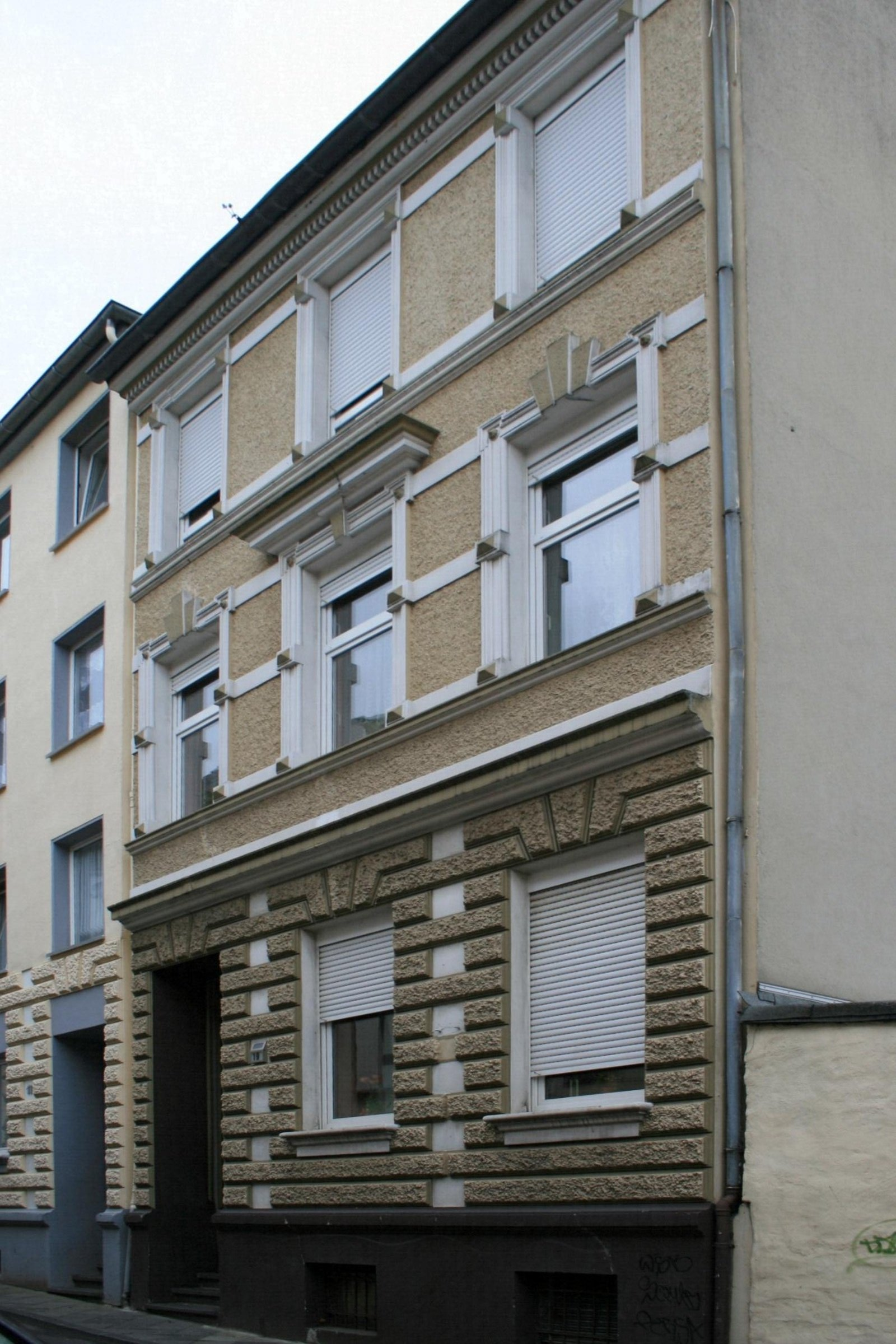 Cultural heritage monument No. L 022 in Mönchengladbach